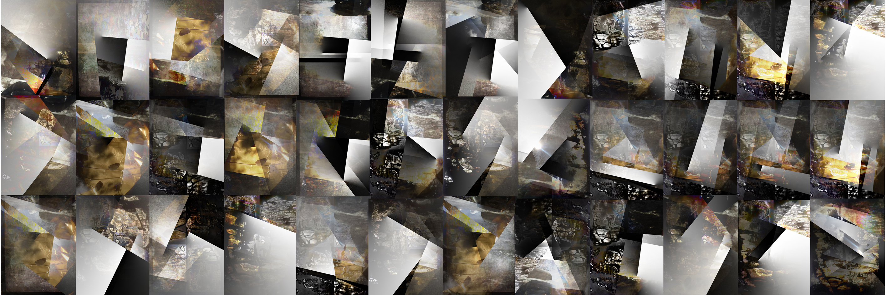 Artwork by artist Andrei Khanov, mixed media, 450 x 1200 cm, May 2020.